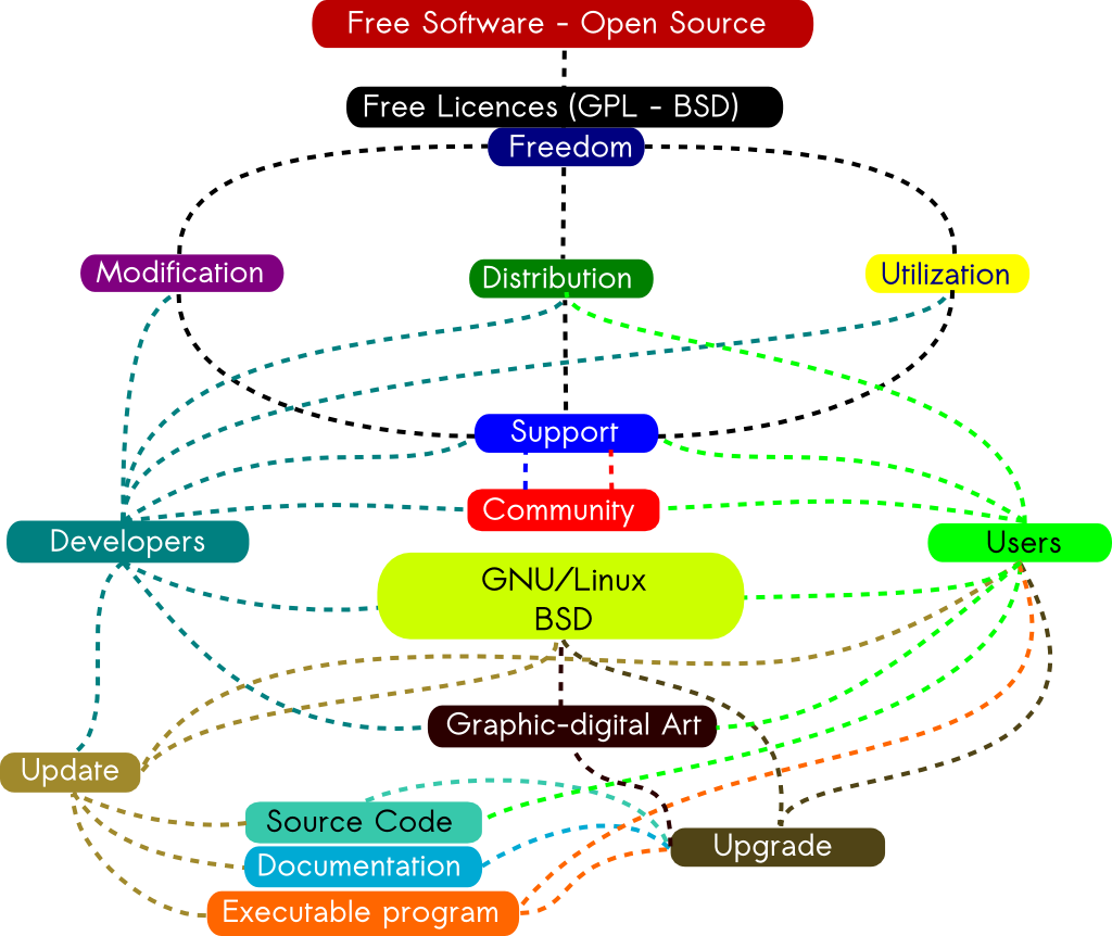 Conceptual Map of the FLOSS (Free/Libre Open Source Software)